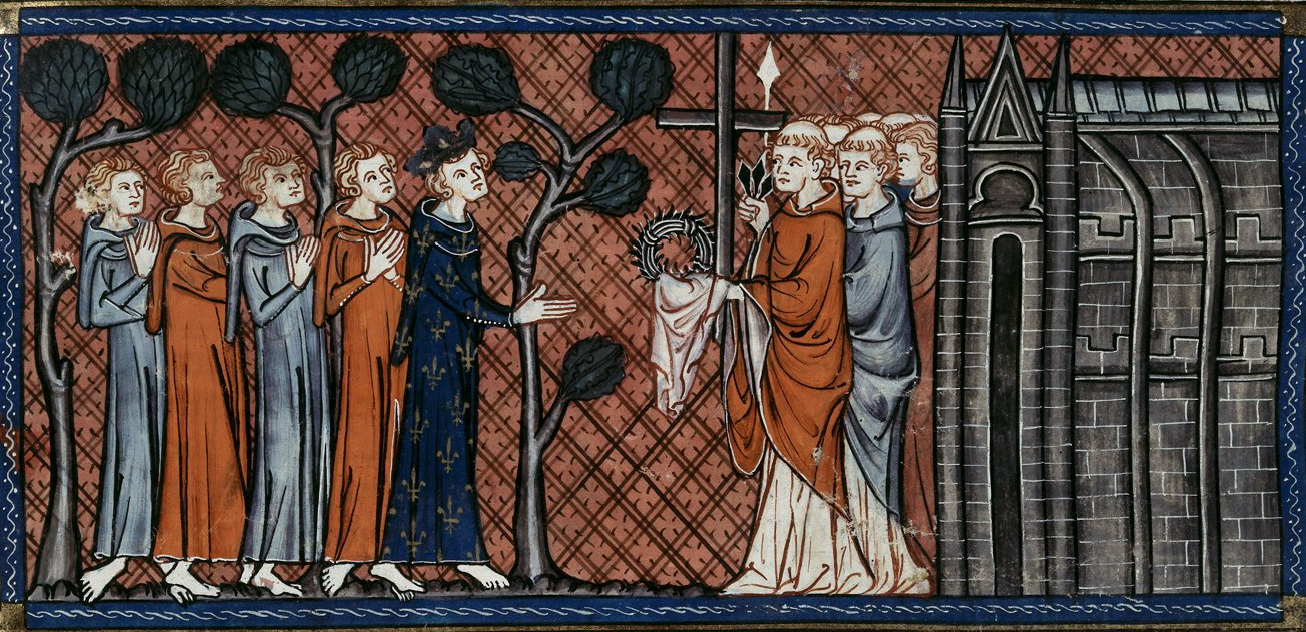 Saint Louis IX of France receiving the Crown of Thorns, the holy Lance, the true Cross and other relics from Constantinople. (British Library, Royal 16 G VI f. 395)